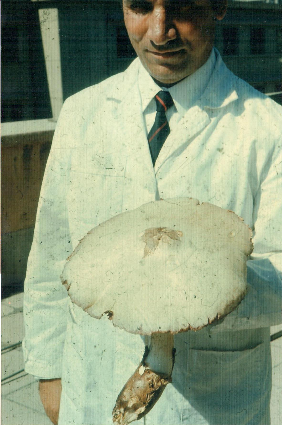 a new species of Volvaria